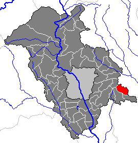 This map shows the area of the Gemeinde (municipality) Langegg bei Graz in the Bezirk (district) Graz-Umgebung, Styria, Austria.